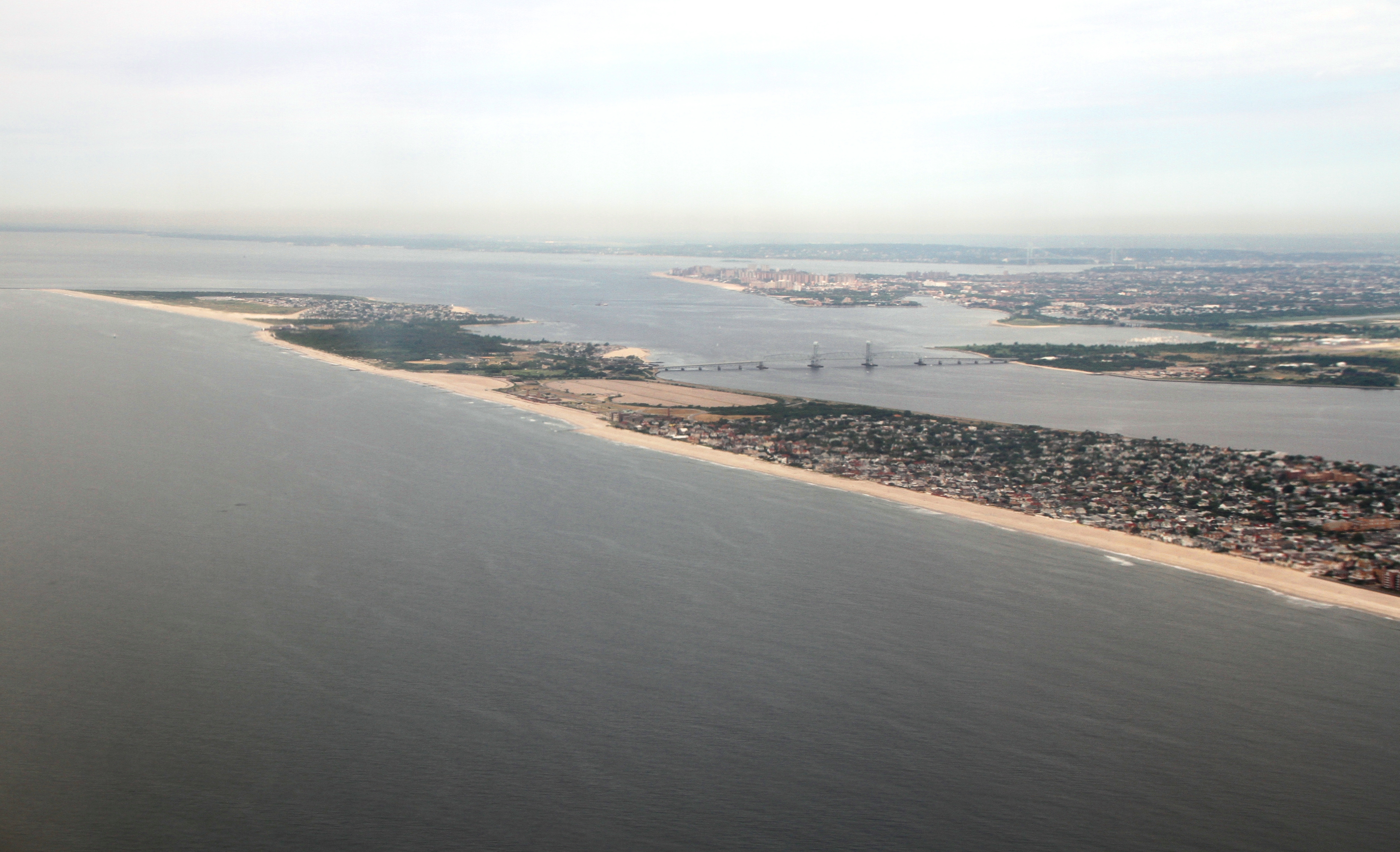 Rockaway Beach area of southwestern-most Long Island, Queens county, outside Coney Island - New York.